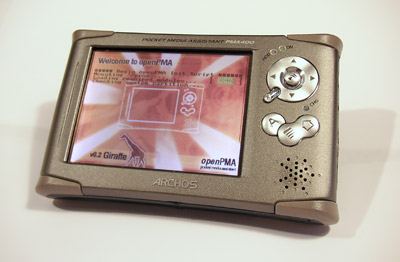 Picture of a PMA booting openPMA v0.2